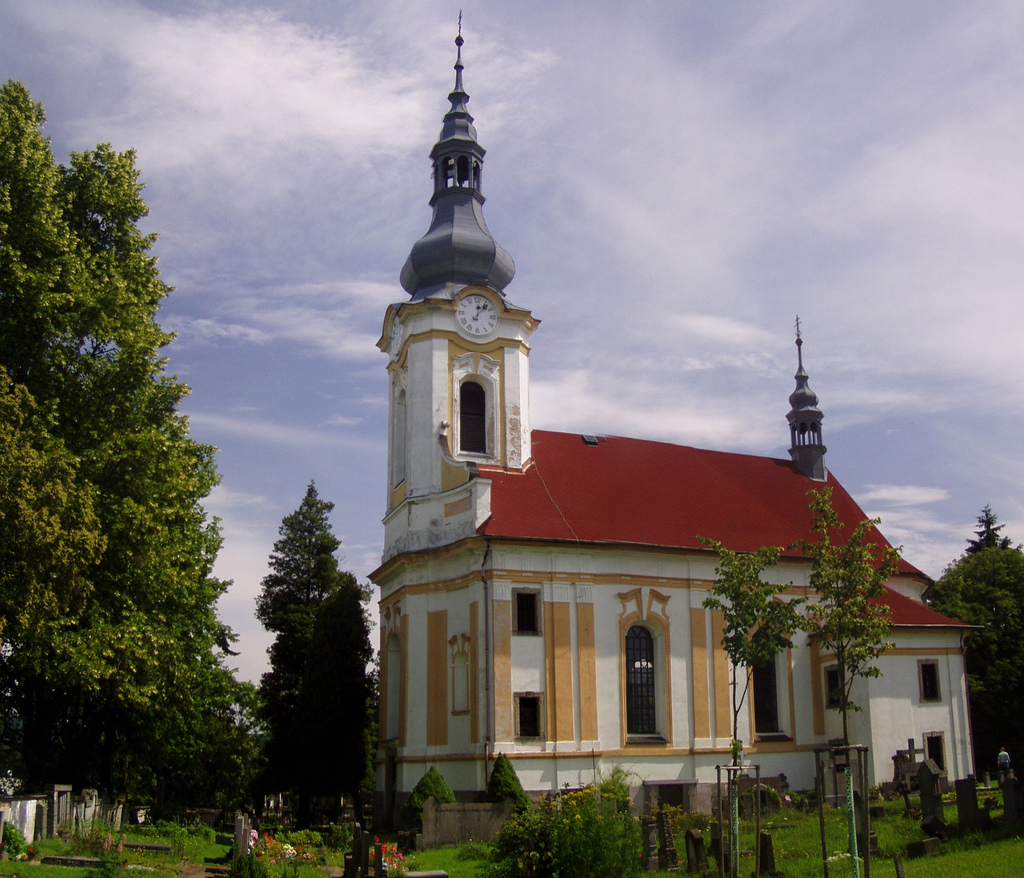 Church of St Anthony of Padua in Kytlice, Děčín District, Czech Republic.